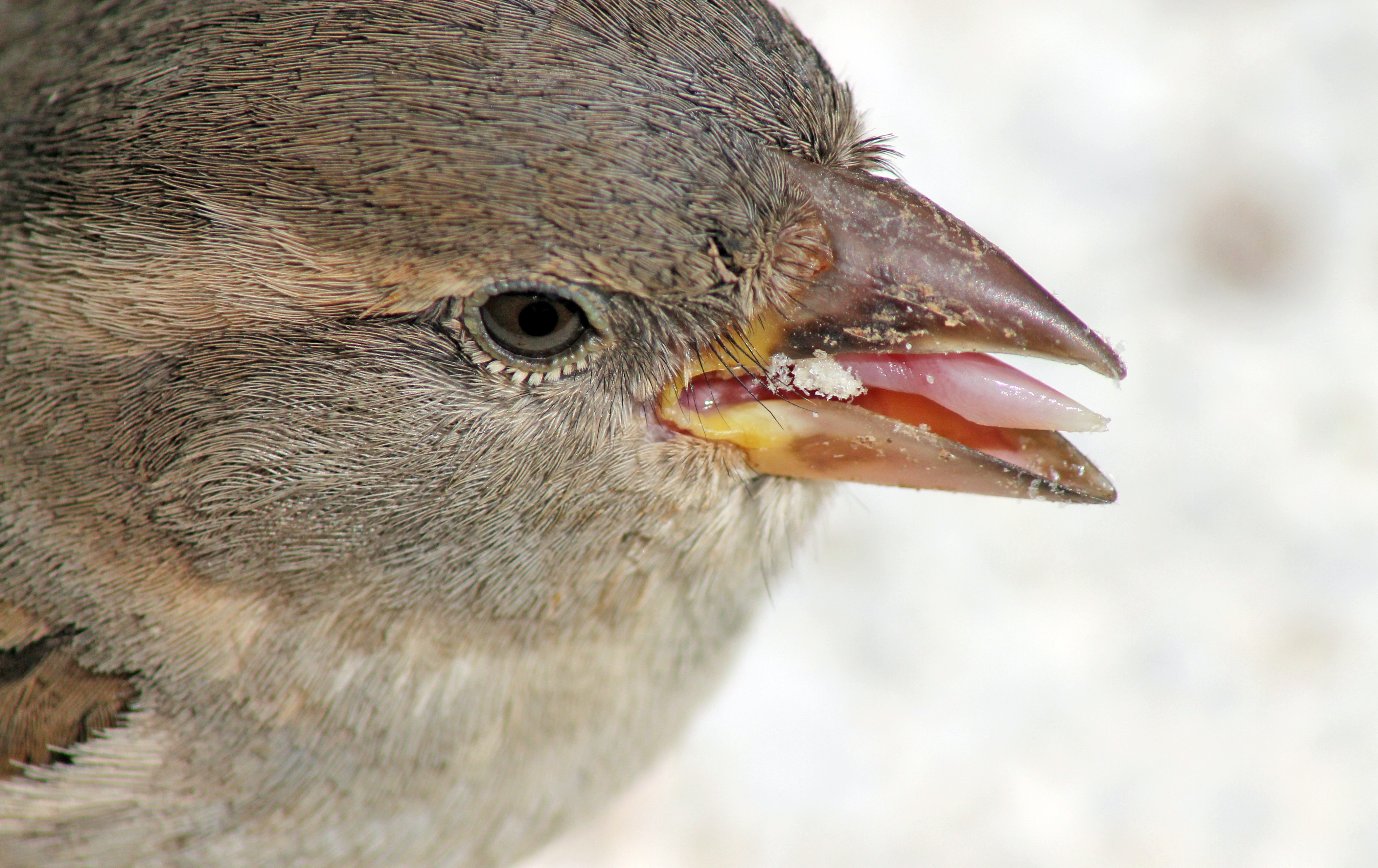 A female house sparrow (Passer domesticus) in Retiro Park in Madrid (Spain).